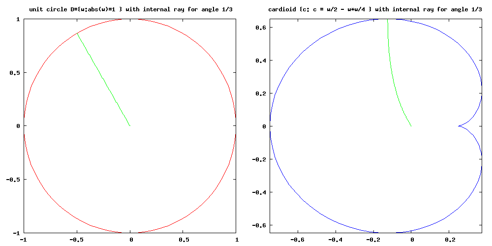 Internal ray for angle 1/3 of main cardioid of Mandelbrot set as an image of internal ray of unit circle under conformal map γ 1 {\displaystyle \gamma _{1}\,} which has the explicit equation